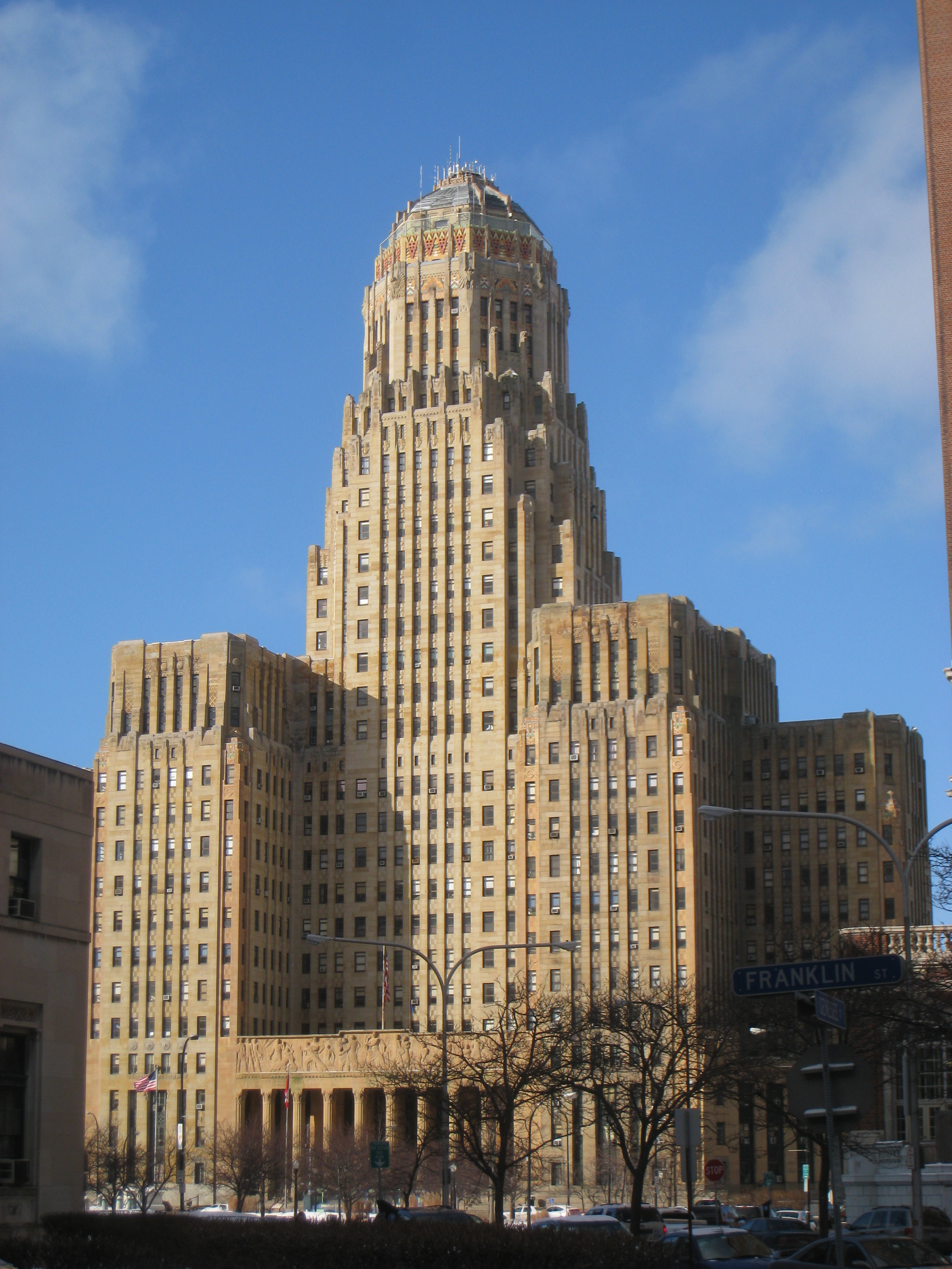 Buffalo City Hall, Buffalo, New York, USA.